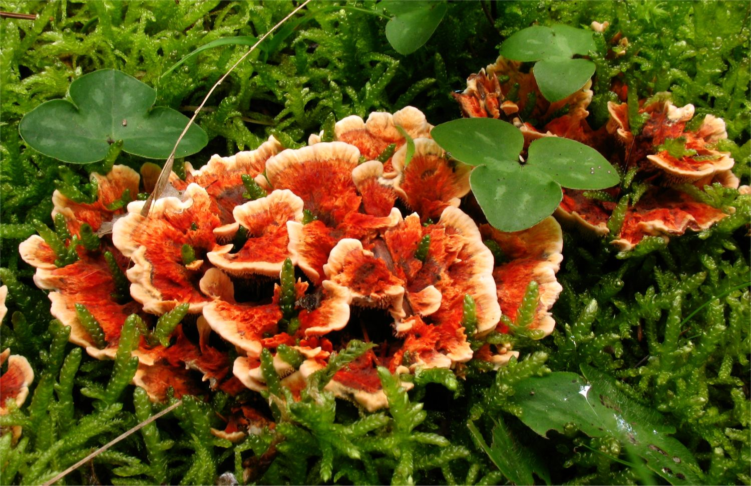 Fruit bodies of the tooth fungus Hydnellum auratile. Photographed in Gotland, Sweden.